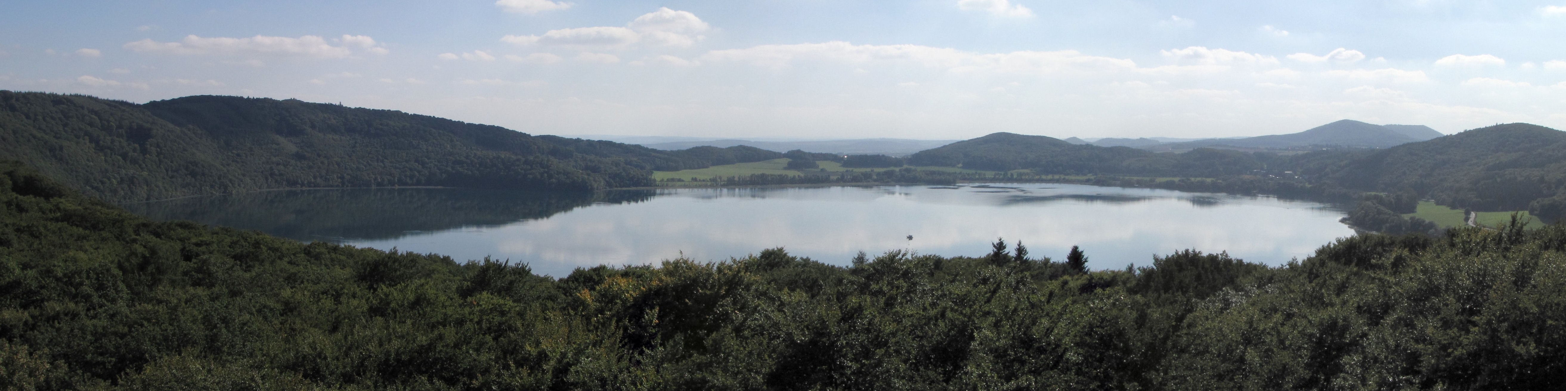 View from Lydia-Tower at Laacher See